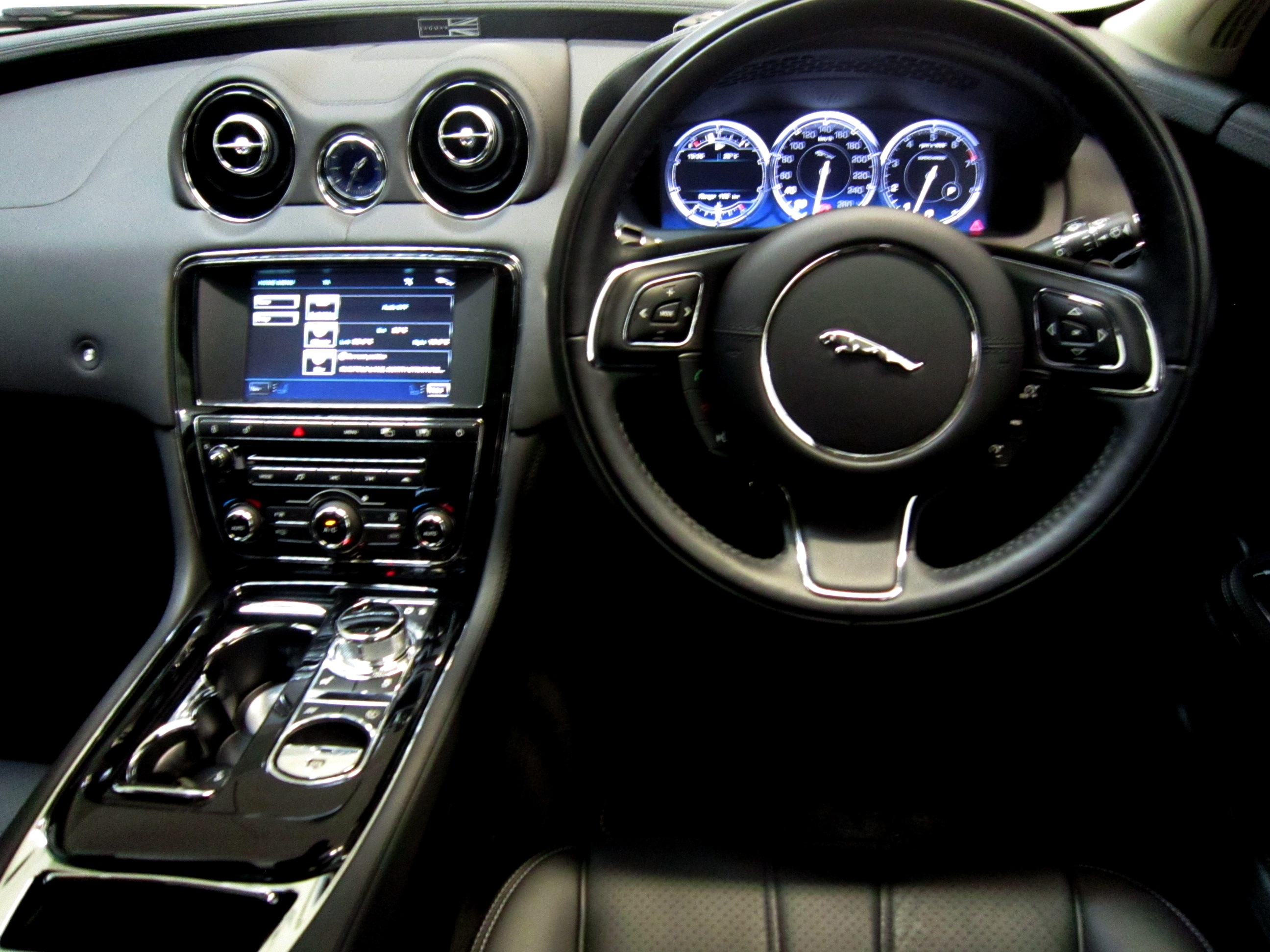 Inside, new technologies create more an environment of living space rather than simply just a car cabin. You can check out the full review of the Jaguar XJ Supersport here at; NRMA Drivers Seat